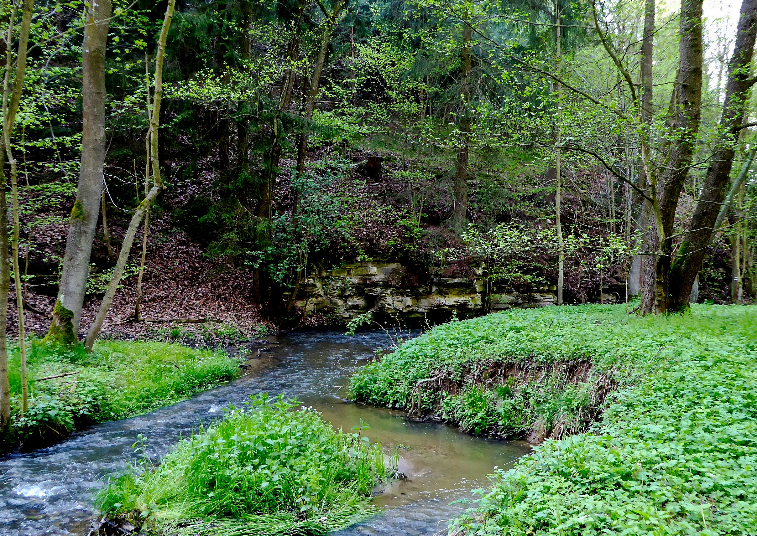 The nature reserve and locality of European importance with named Valley of Anny. Photo location - Czechia, Pardubice Region, Skuteč town and Hroubovice village.